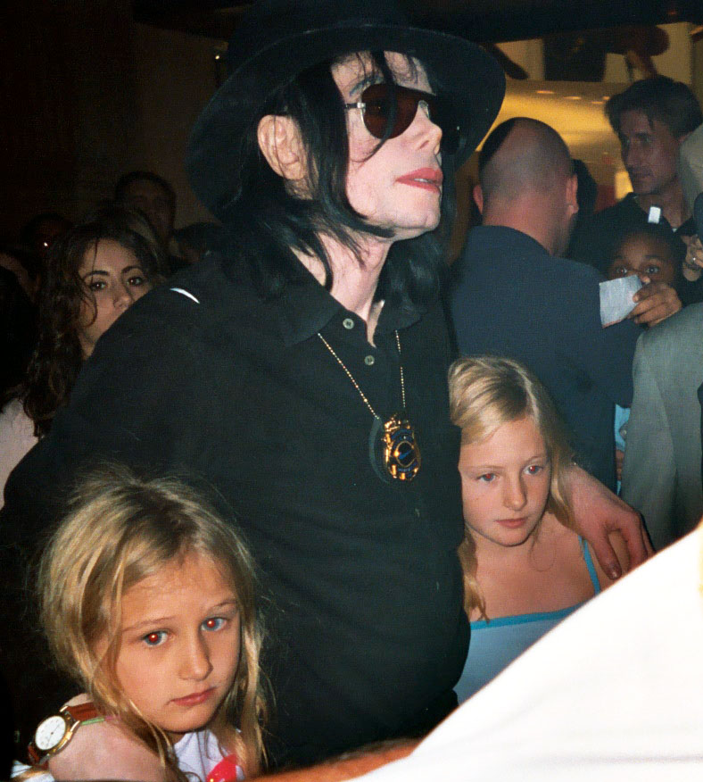 In 2003 we headed to Vegas. After checking in to the now flattened "Stardust" we headed to the Forum shops at Caesars Palace. To our surprise "The King of Pop" was out shopping with a couple of children and a huge security team. A week later he was charged. These pictures were taken with a throw away camera and scanned in.